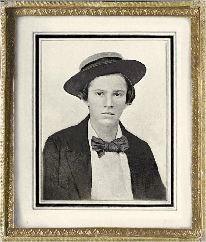 Example of an "English Passepartout". Around the image section one or two black lines or at least very dark lines are drawn.